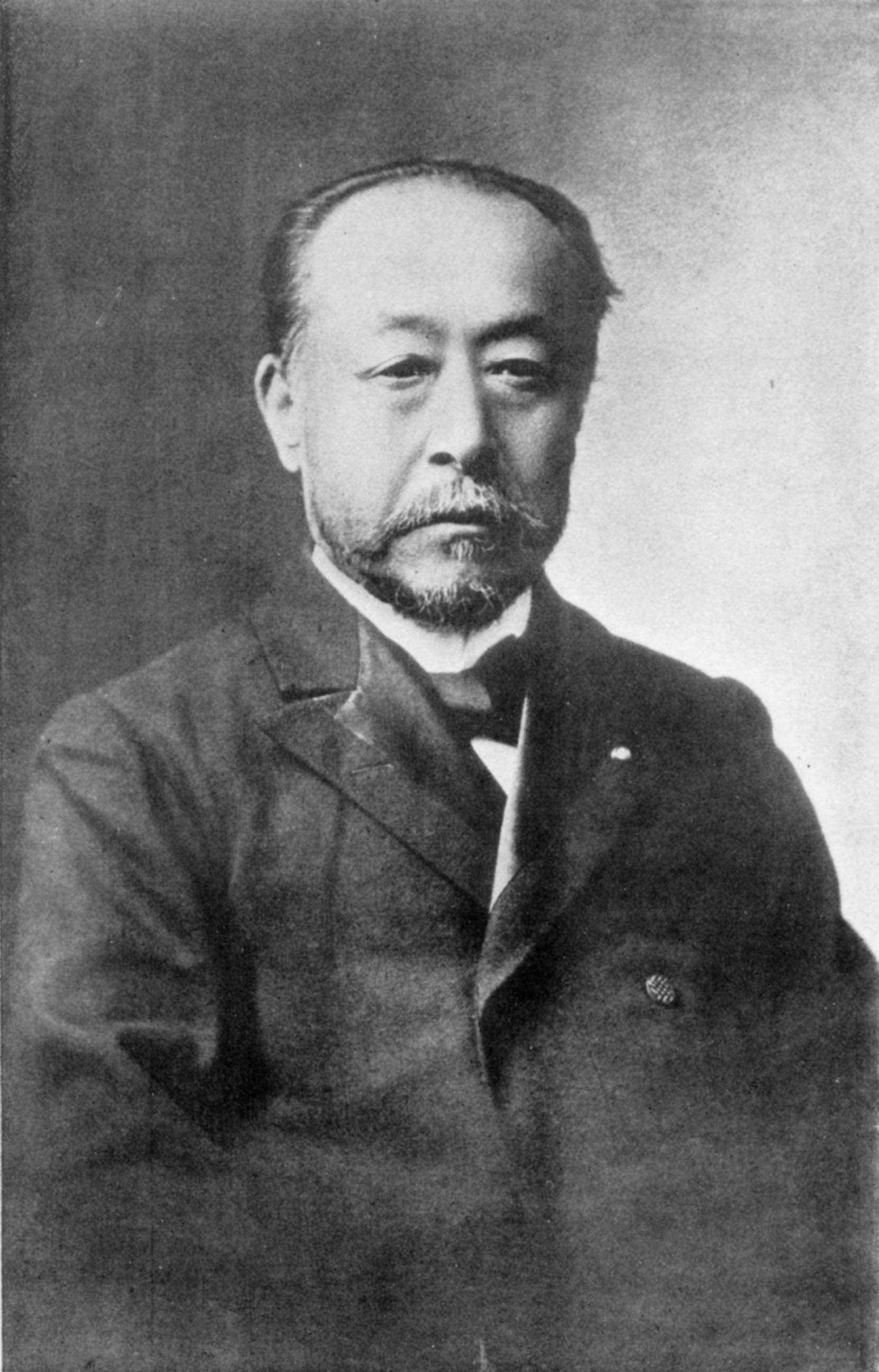 Portrait of Viscount Tanaka Fujimaro, the senior grade of the second court rank.